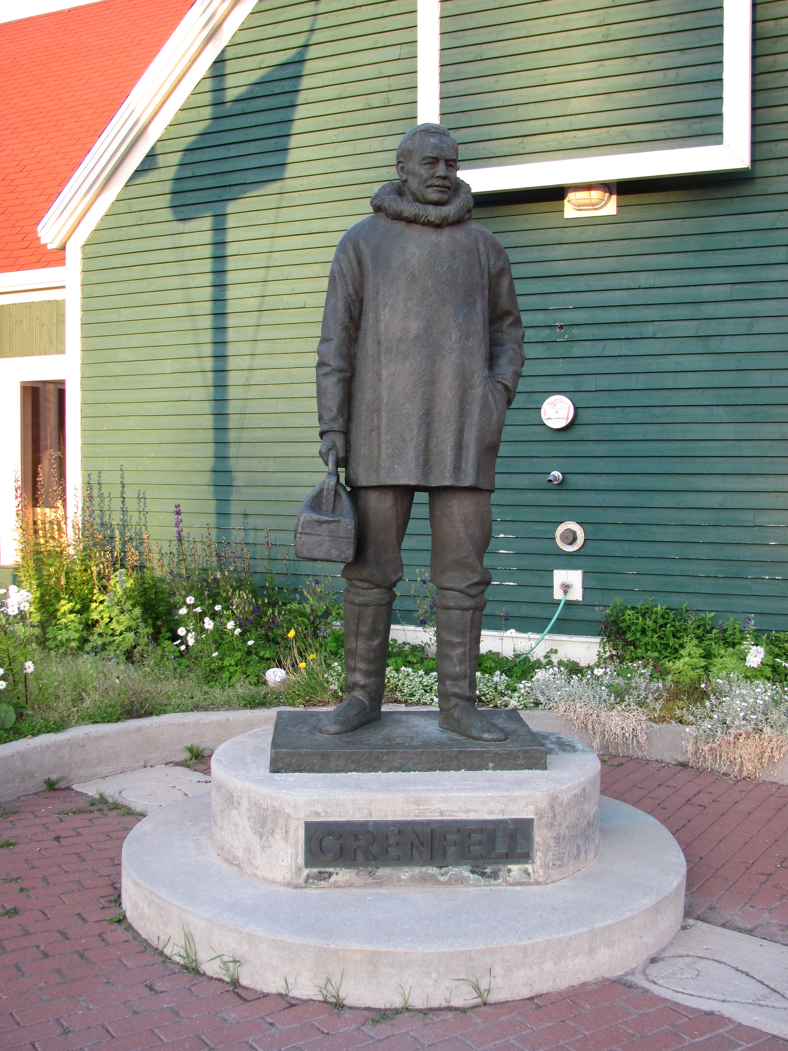 Grenfell Memorial, St. Anthony, Newfoundland, Canada